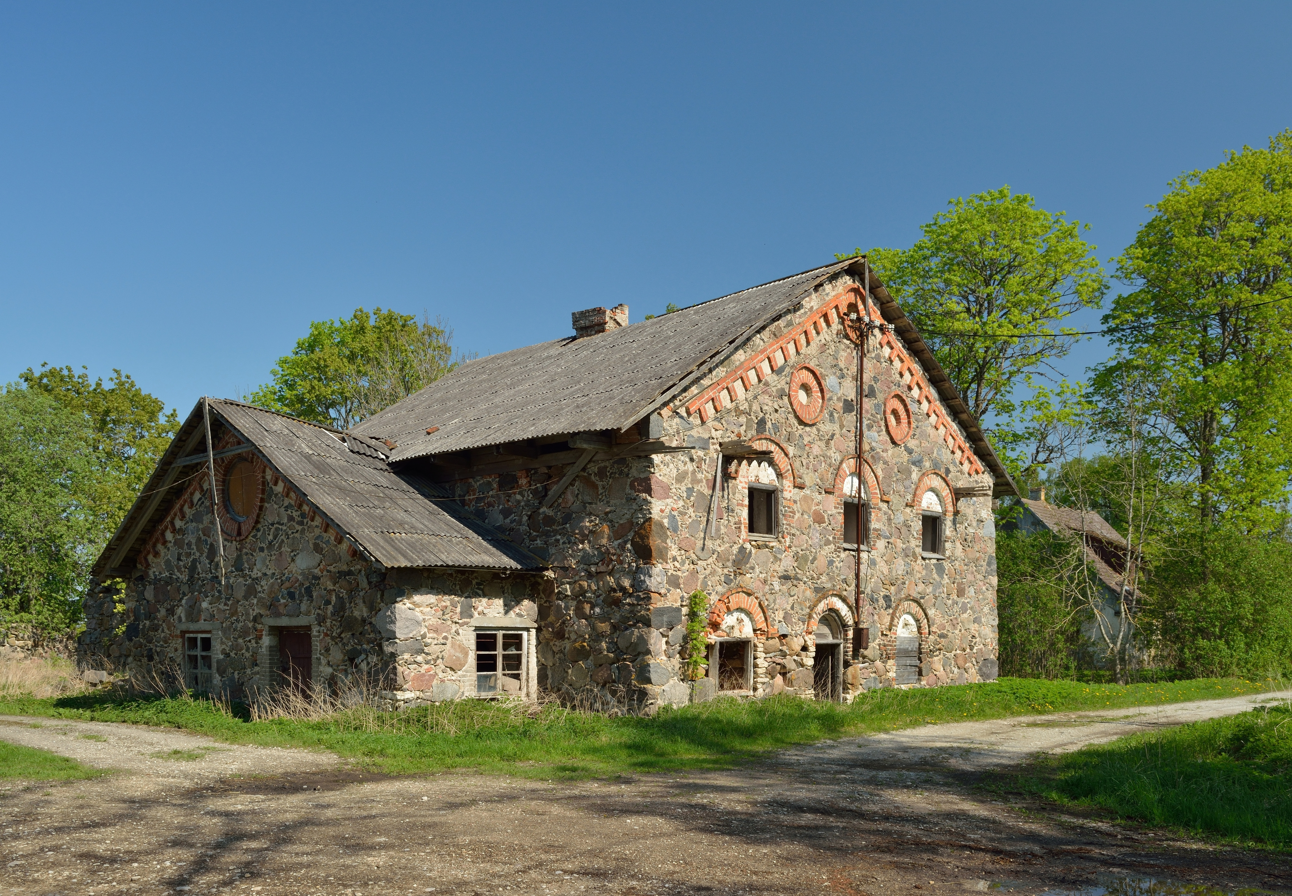 Lasinurme manor distillery kitchen